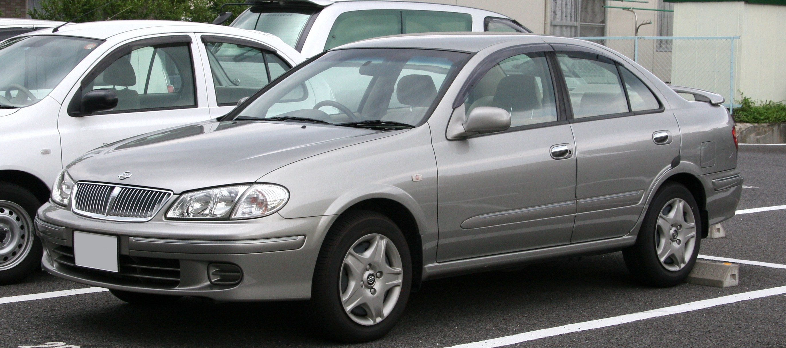 NISSAN BLUEBIRD SYLPHY